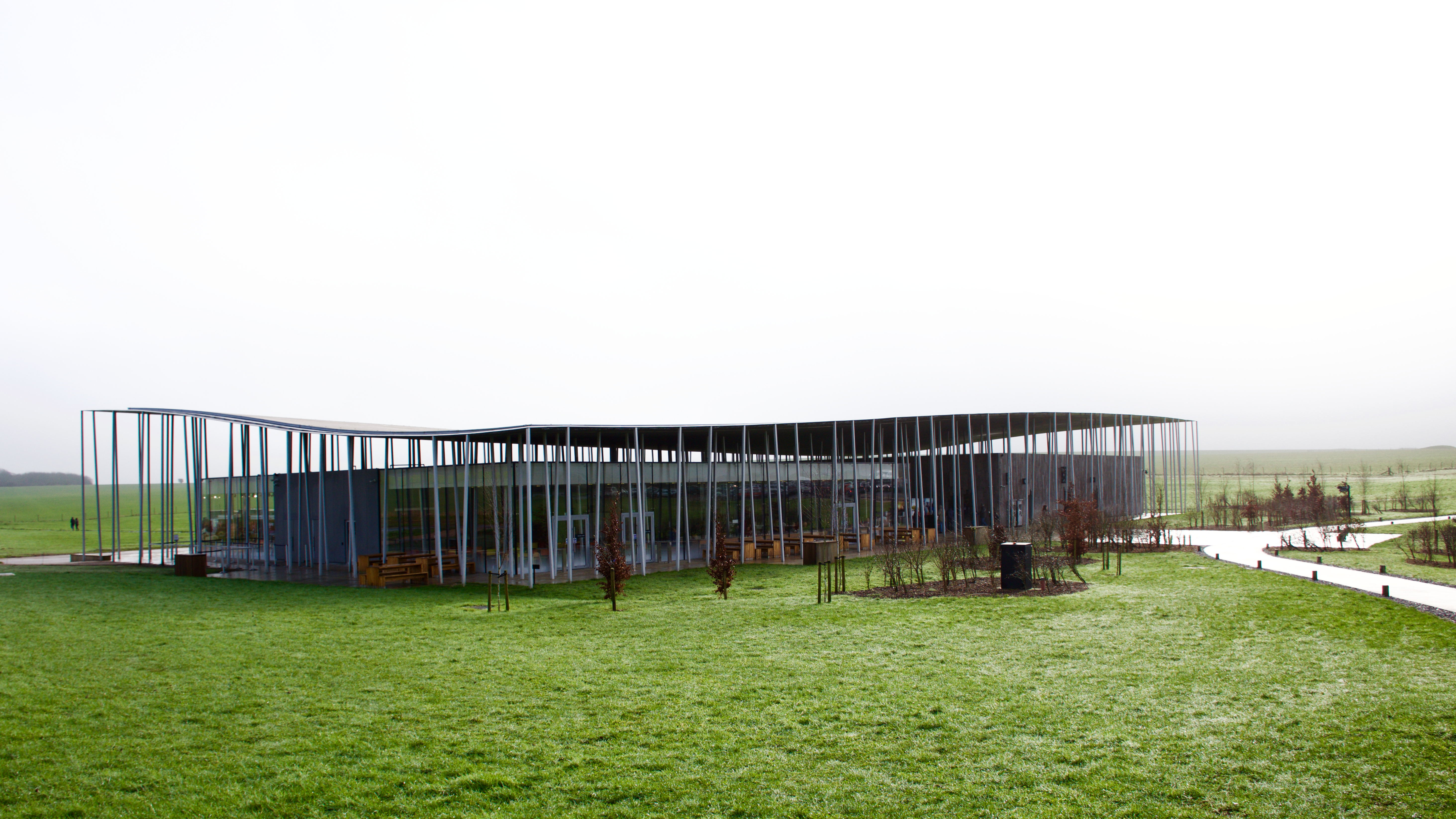 The completed Visitors Centre at Stonehenge.